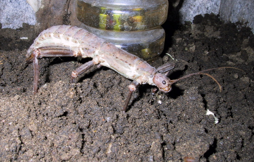 Eurycantha insularis, female